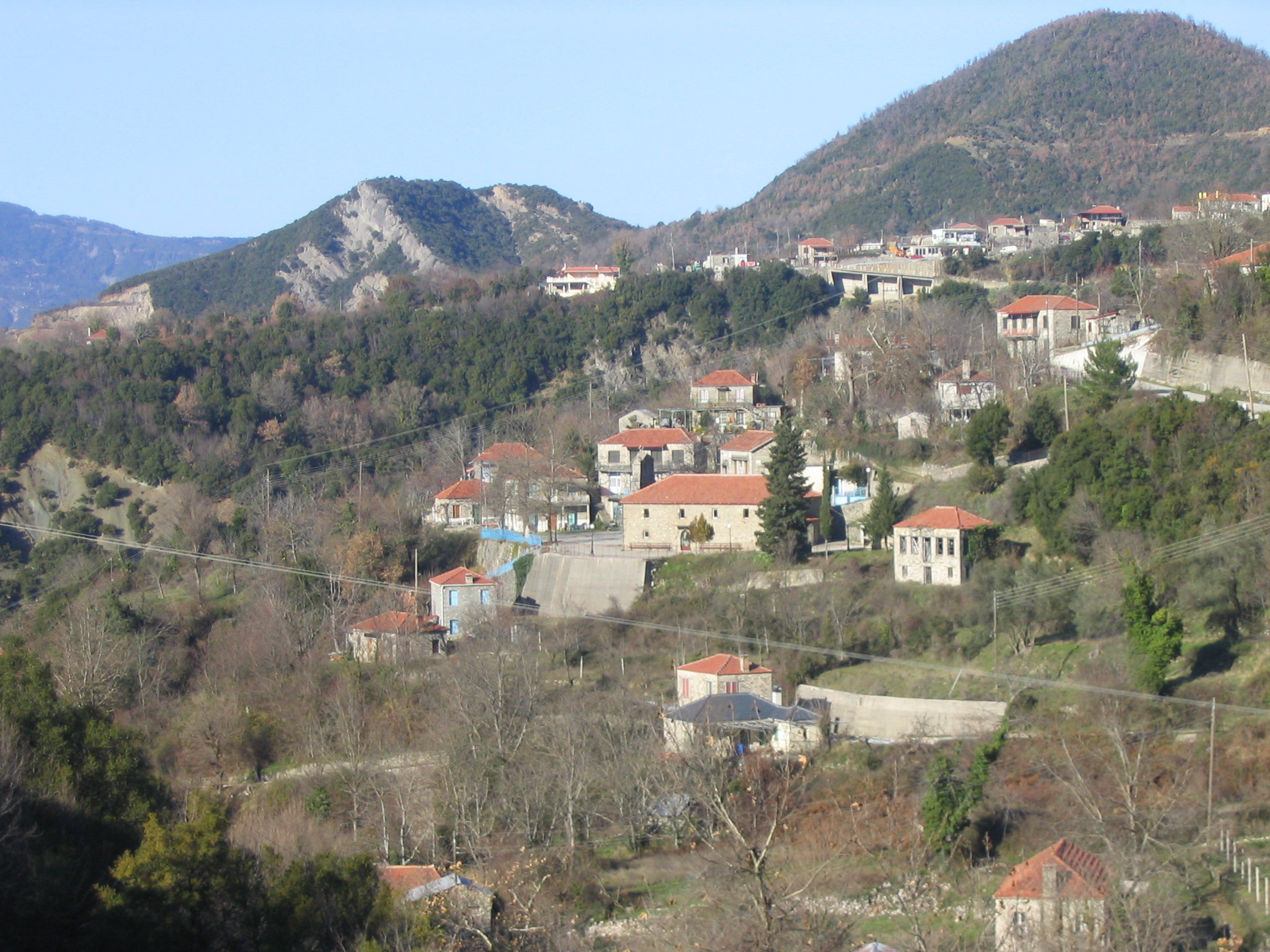 Lepiana village with Mikrospilia in the background